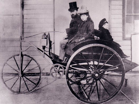 Magnus Volk, his son Bert, and his sister-in-law Deborah, in his electric dog cart, outside Volk's electric rail office in Madeira Drive.